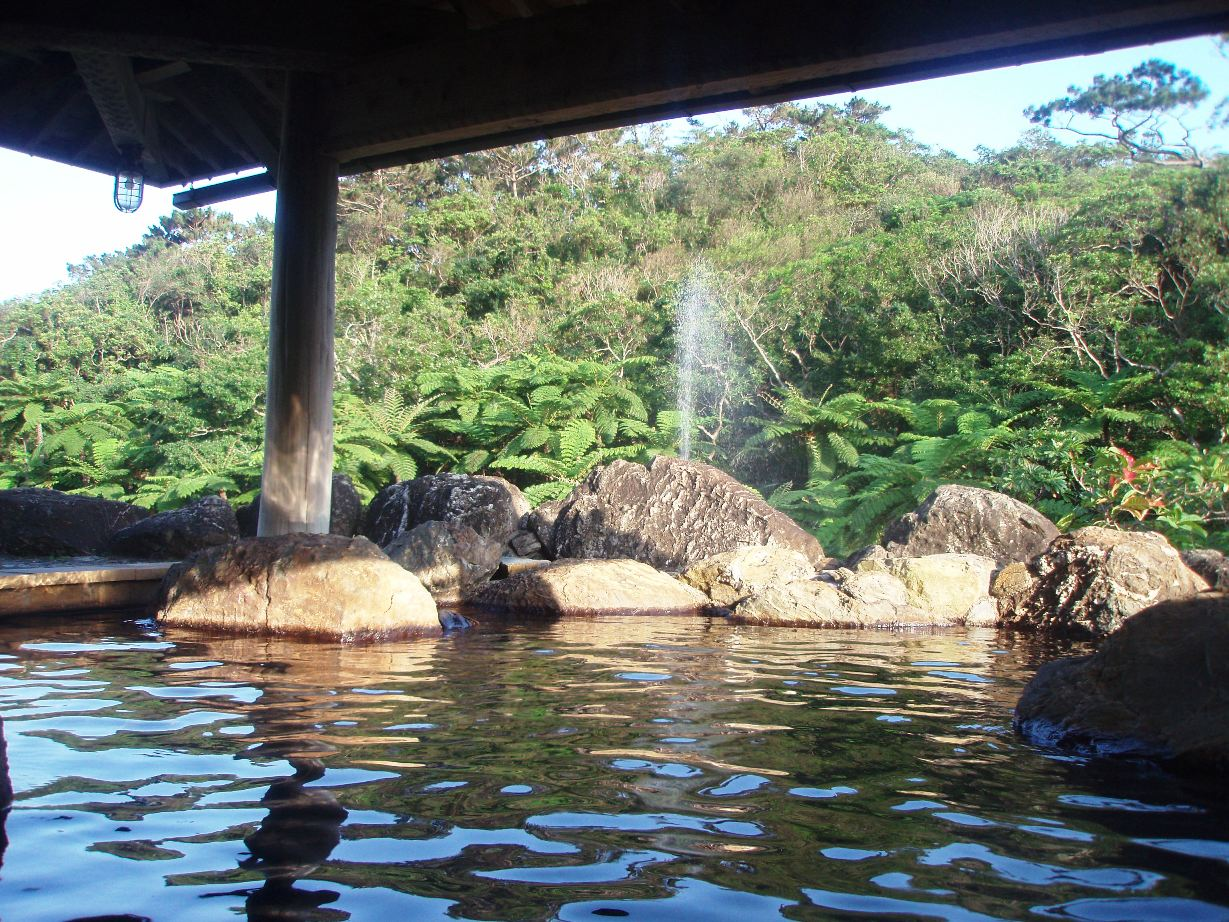 Iriomote spa in Iriomote island.